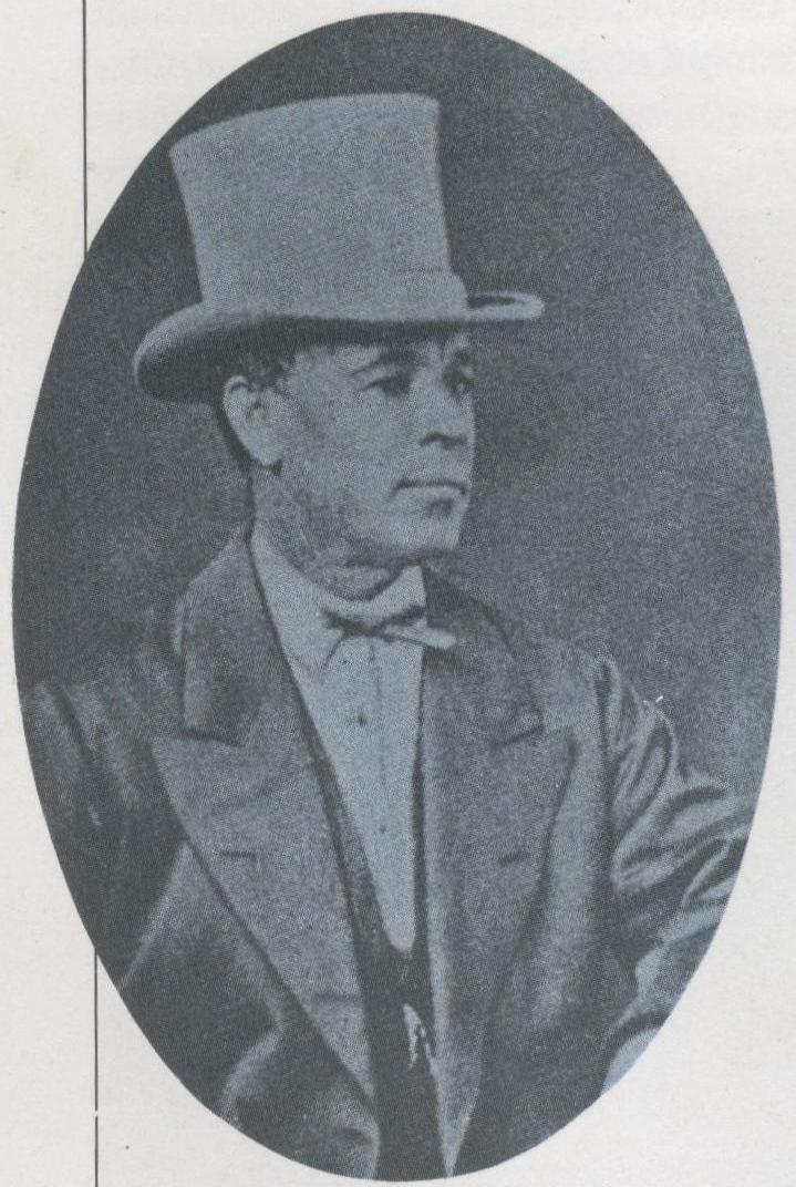 David Arnot. Gifted and successful diplomat and agent of the Griqua leader Nicolaas Waterboer. A photograph from the 1800s now preserved in the Cape Archives.